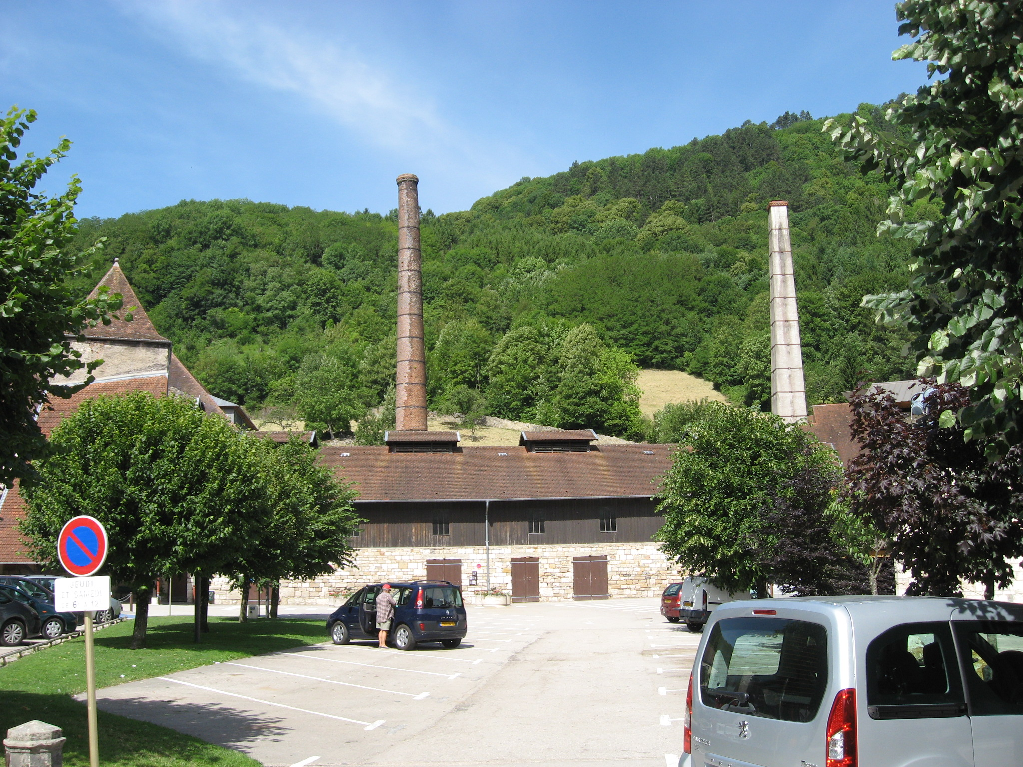 Saltwork of Sailns-les-Bains, outside